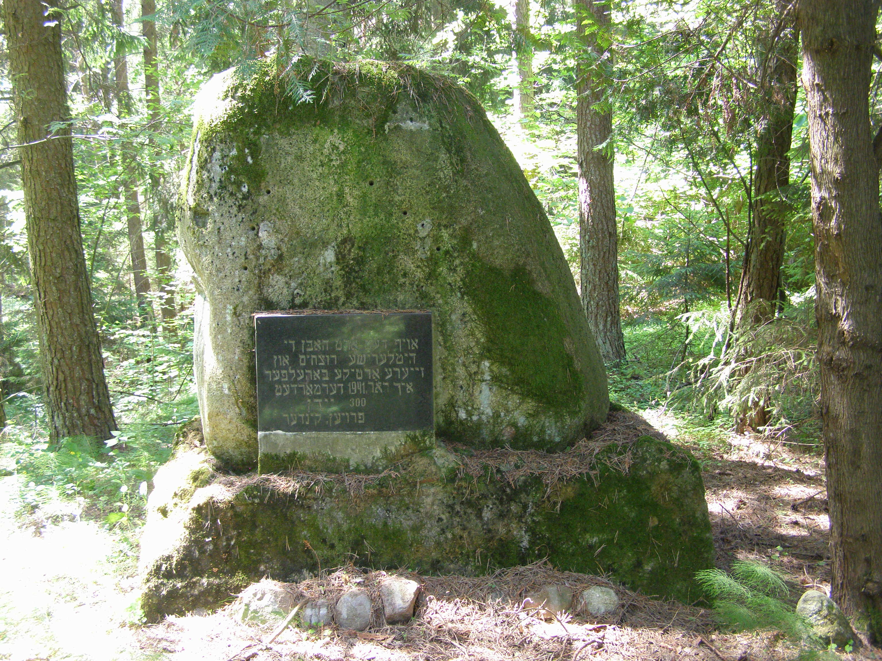 Holocaust Mass Graves, Darbenai, Kretinga district, LithuaniaLietuvių: Darbėnų žydų II holokausto vieta, Kretingos rajonas, Lietuva